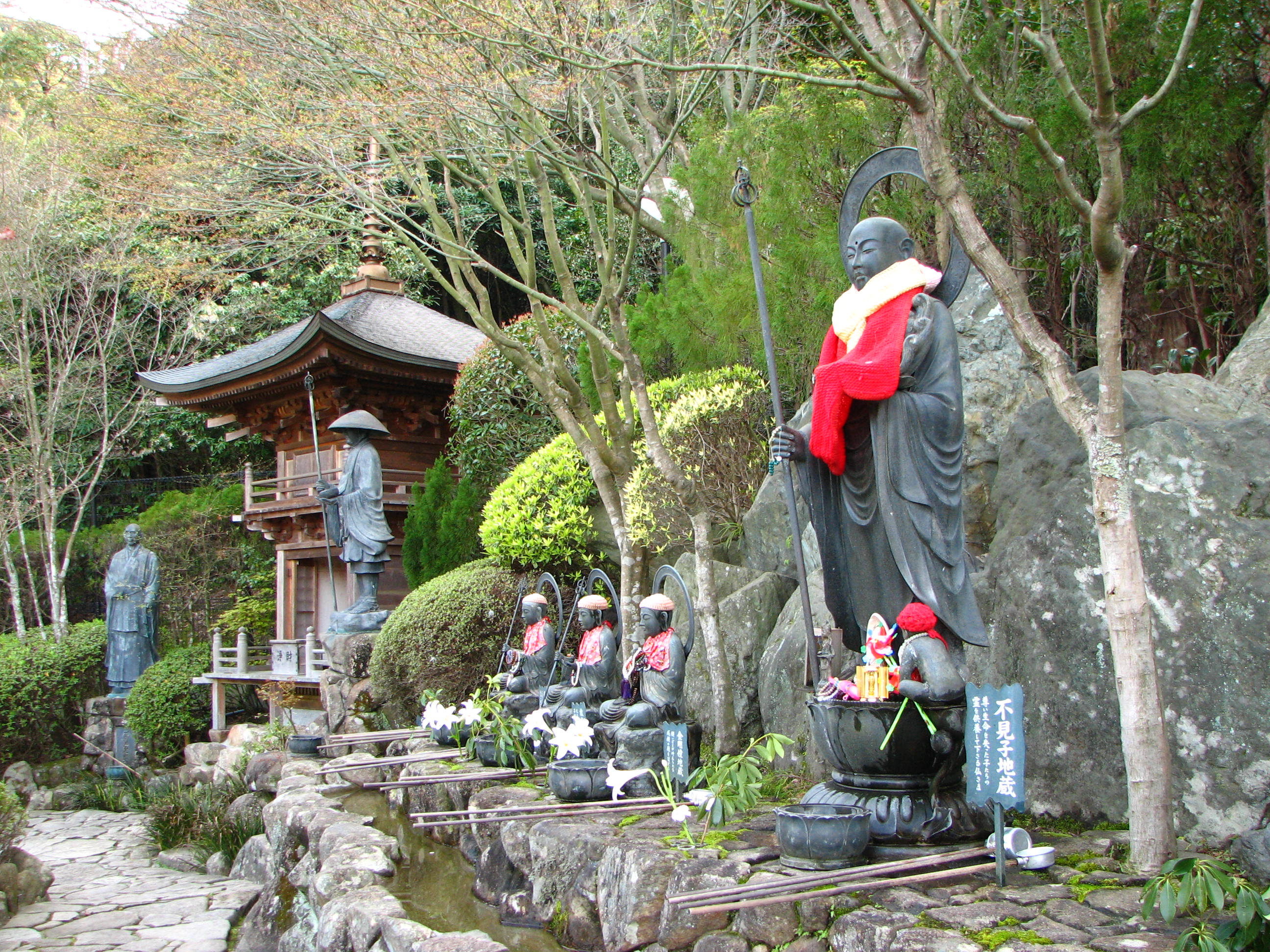 Jizō statues, Daisho-in temple, Miyajima island, Hiroshima Prefecture, Japan